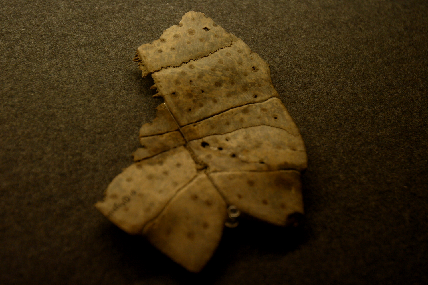 Turtleback for divination in Jinsha archaeological site, Chengdu China